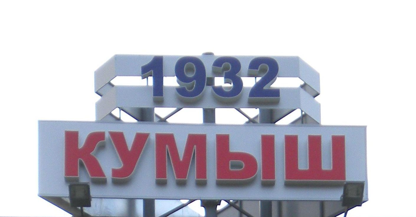 ку